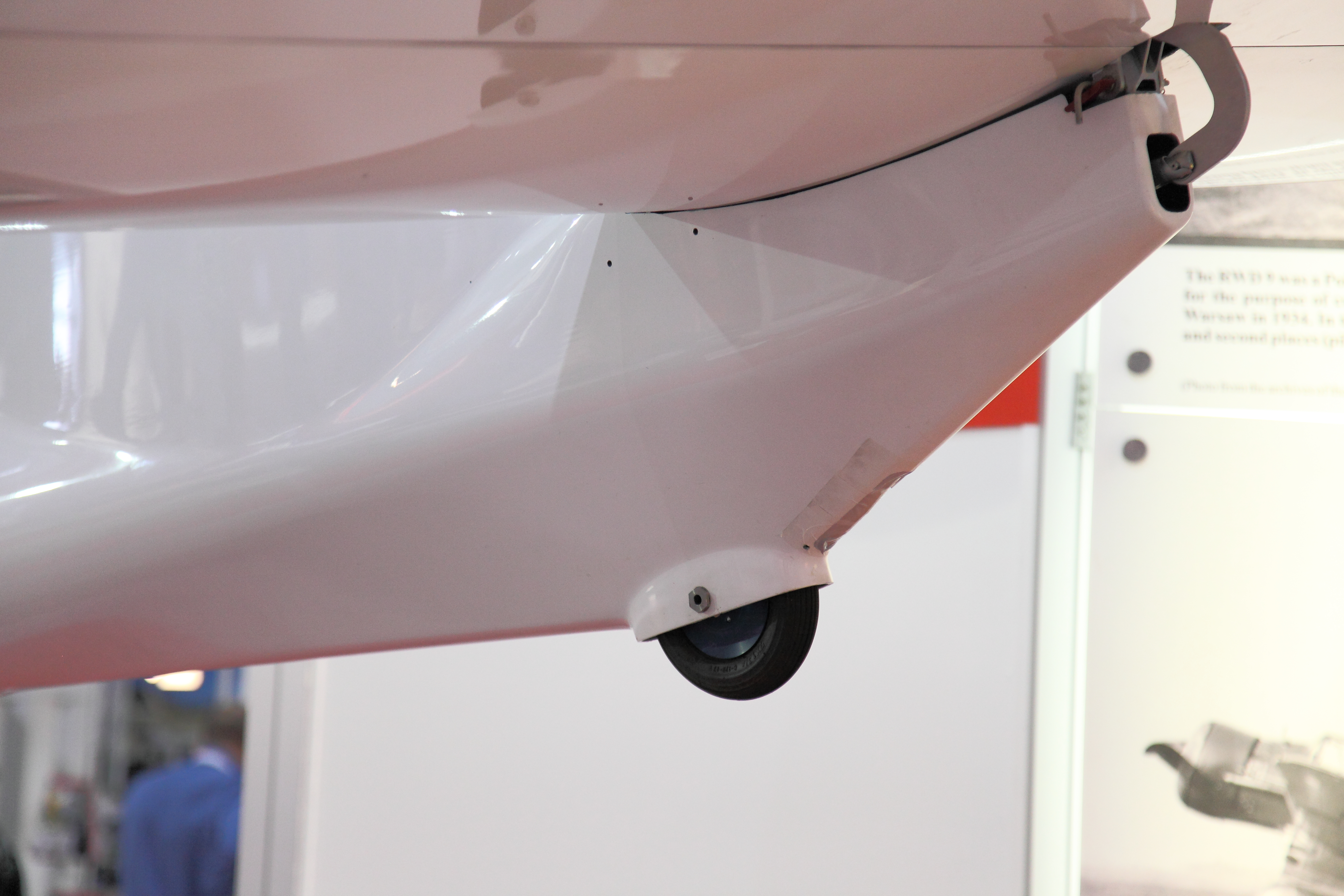 PZL-Świdnik AOS-71, ILA Berlin Air Show 2012